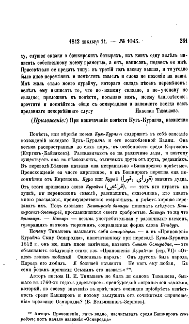 Letter by N. I. Timashev, 1812